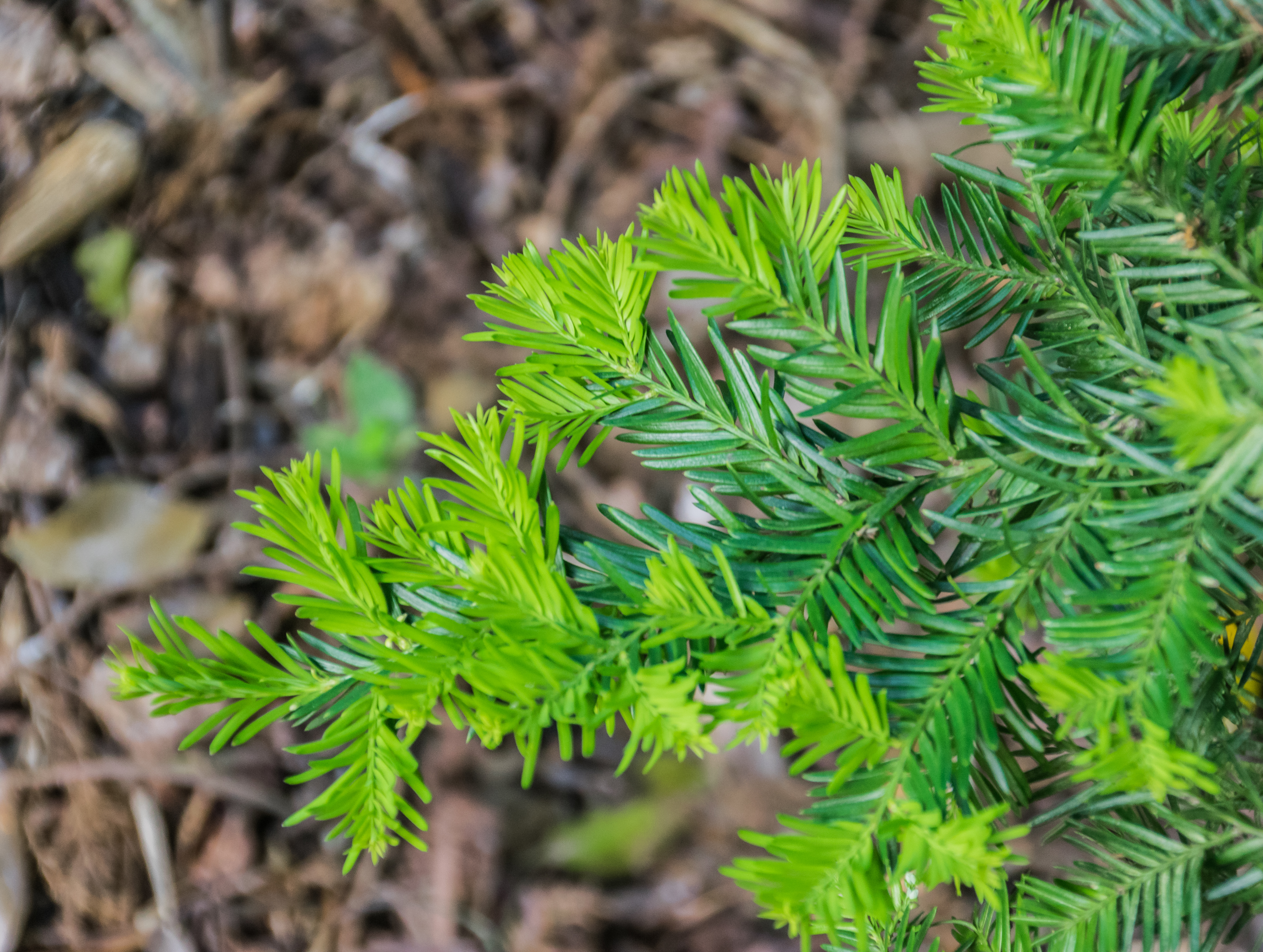 Prumnopitys andina in Christchurch Botanic Gardens in Christchurch, Canterbury Region, New Zealand